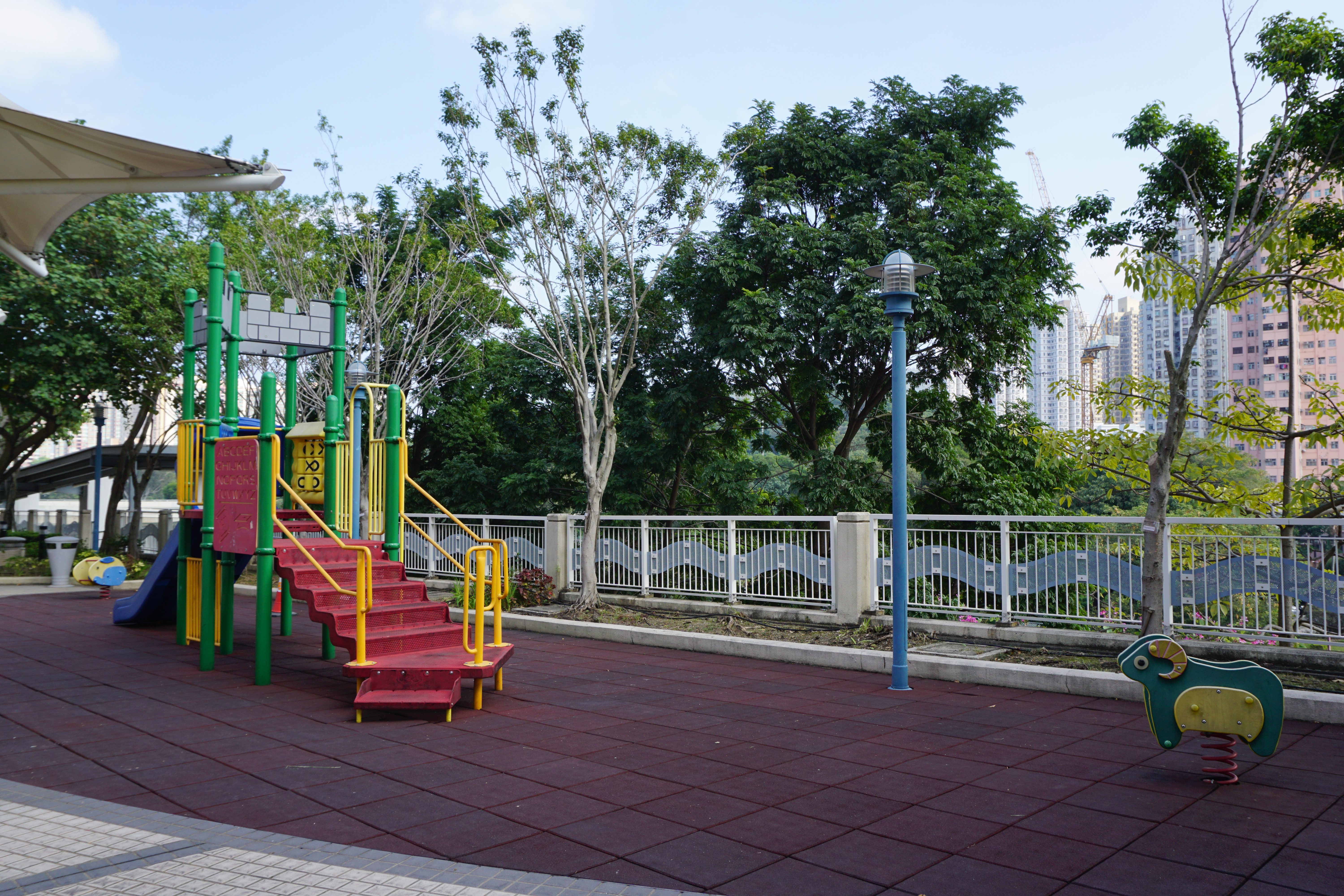 Riverside Park in Tuen Mun, Hong Kong.